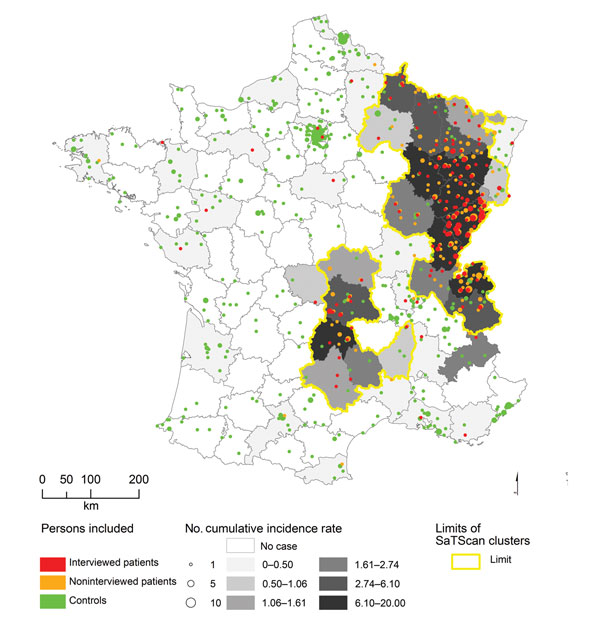 Figure 1. . Location of patients, controls, and areas in France where persons are at risk for alveolar echinococcosis. The main area for human risk is located in eastern France and includes the départements (second largest administrative areas in France) where persons are at risk for alveolar echinococcosis of clusters 1, 2, and 4 as defined by SatScan analysis (Kulldorff, Boston, MA, USA; and Information Management Services, Inc., Rockville, MD, USA). Clusters 3 and 5 are located in the mountains of Massif Central and constitute the second area where persons are at risk.